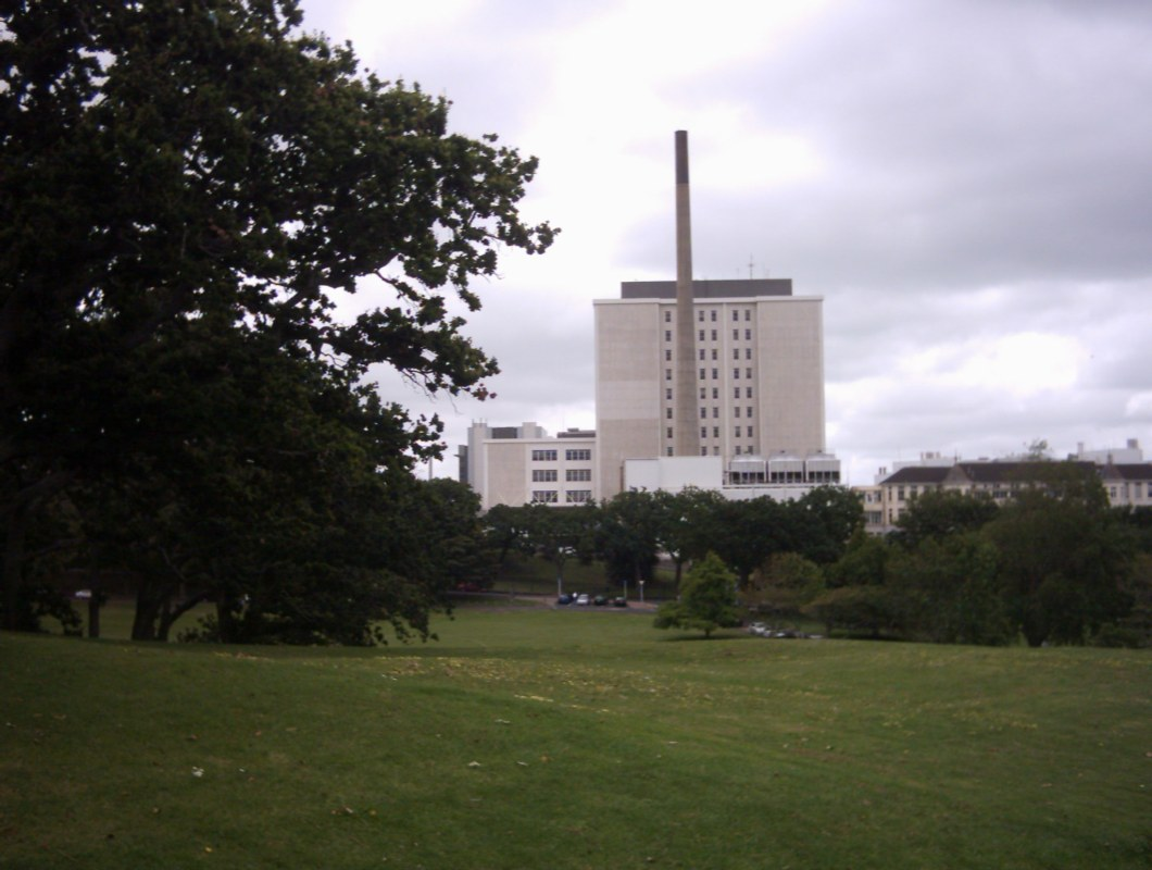 The older part of Auckland City Hospital, Auckland City, New Zealand, now the support building, as seen from the Auckland Domain. Visible in front is the smokestack of the complex' central heating.